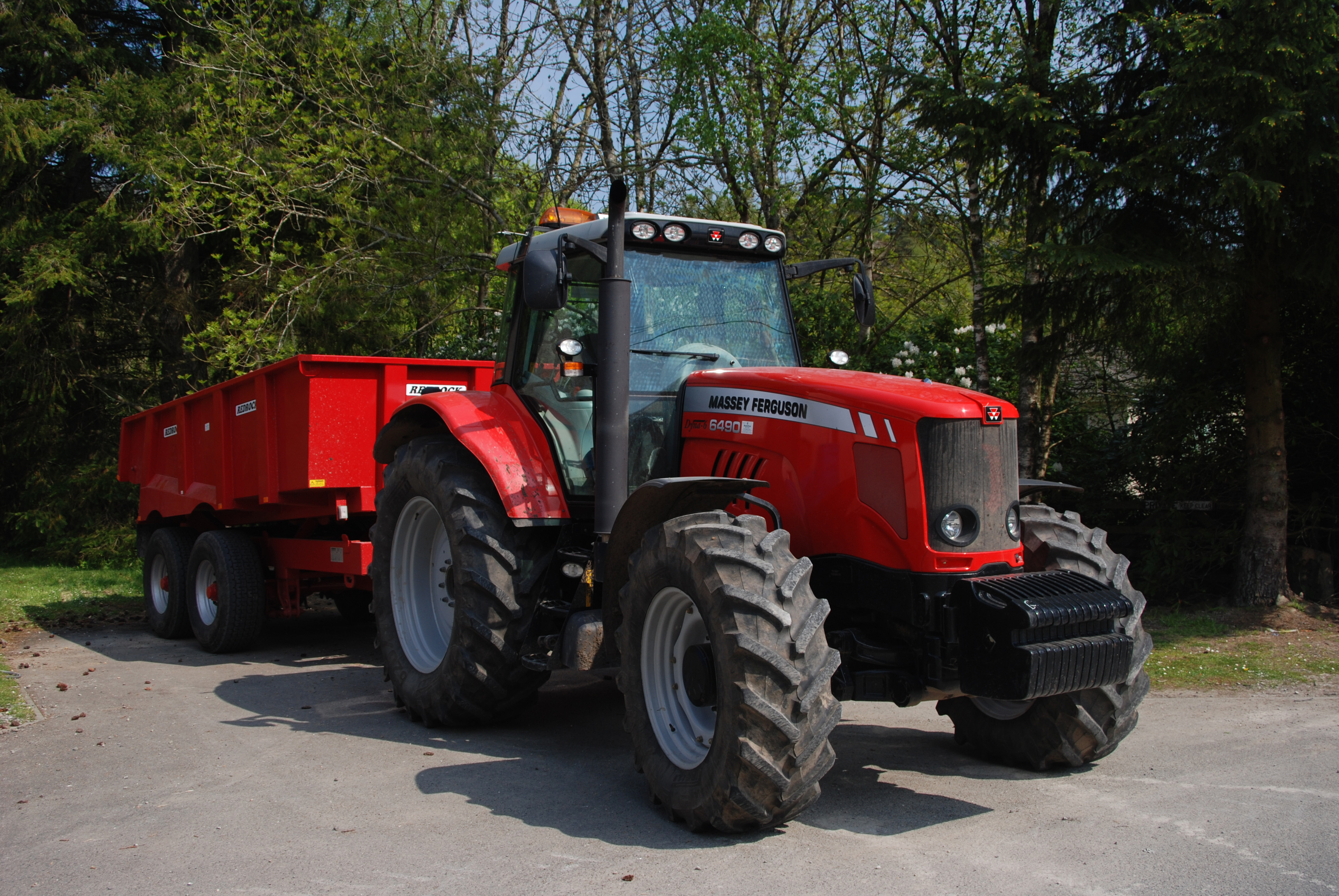 Massey Ferguson 6490 Dyna-6 tractor with Redrock trailer